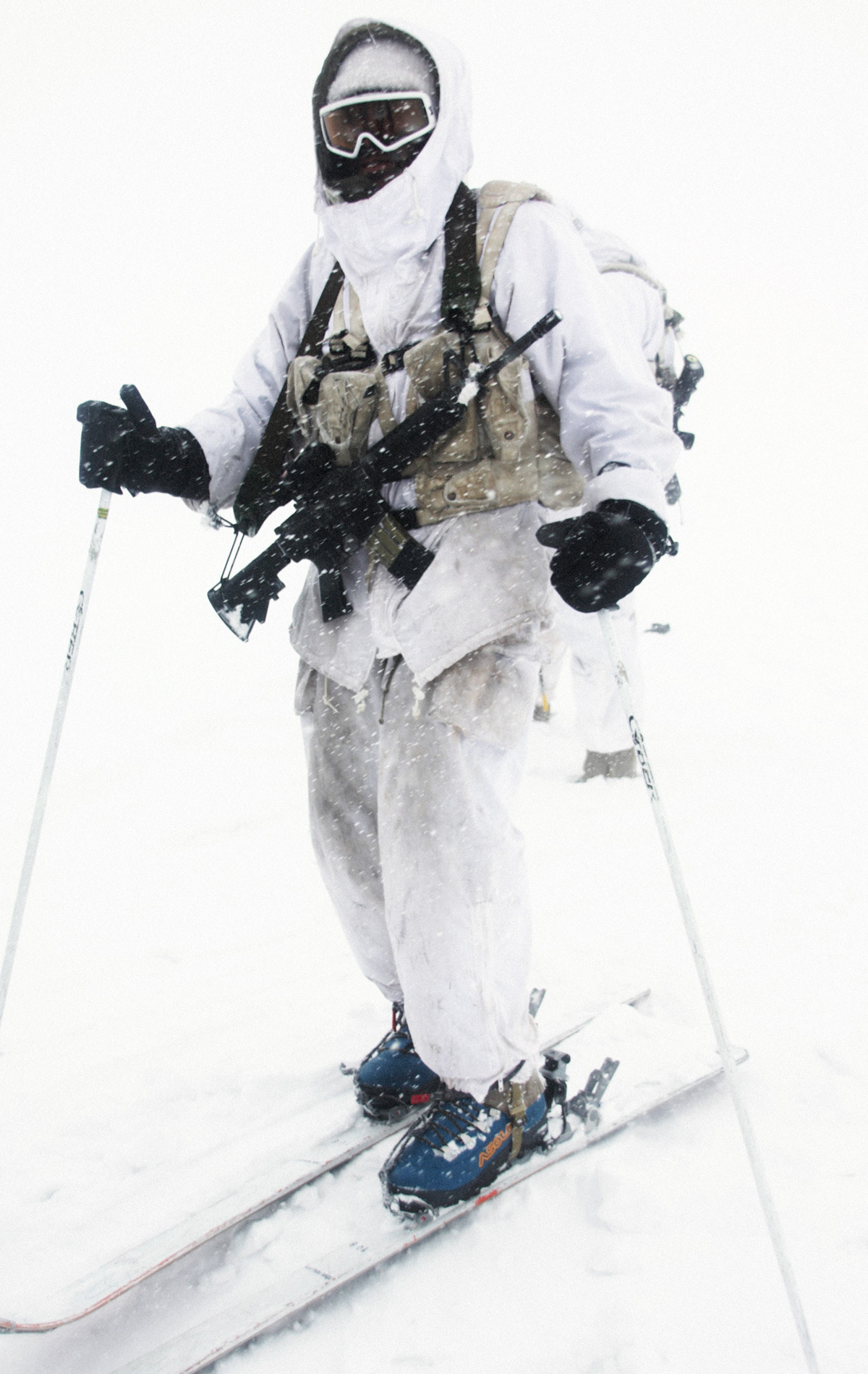 January 22, 2012. Every year during the winter season, the combat soldiers of the Alpine Unit are dispatched to Mount Hermon, after having been trained to operate under extreme weather conditions. Featured as Photo of the Day on January 23, 2012. Photos by Cpl. Timna Segenreich , IDF Spokesperson Unit. Pictured here: Combat soldier training at the Hermon. The Israel Defense Forces Facebook The Israel Defense Forces blog Follow us on Twitter